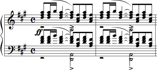 Polichinelle, part of the Morceaux de Fantaisie, composed by Sergei Rachmaninoff